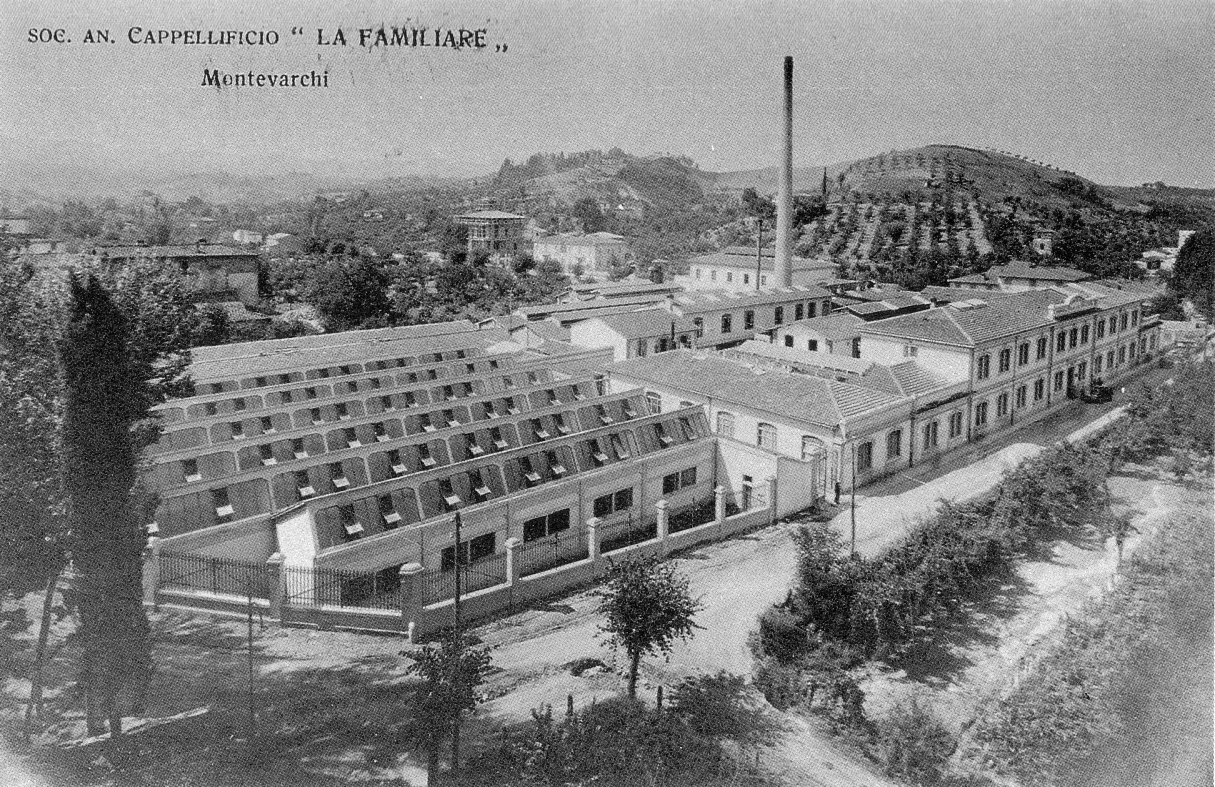 La Familiare, hats factory in Montevarchi